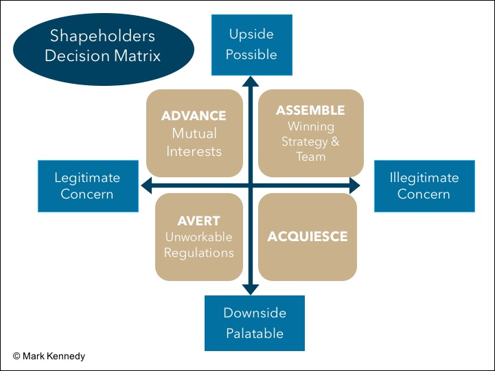 Shapeholder Decision Matrix created by author of Shapeholders, Mark Kennedy.